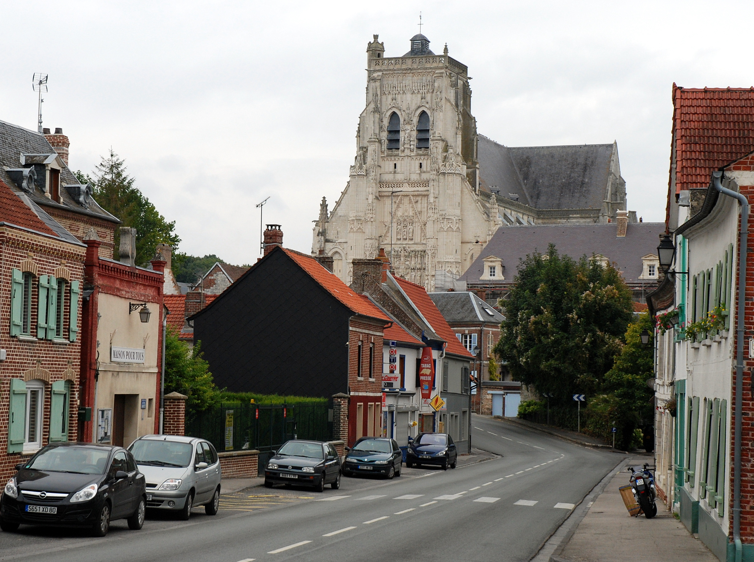 Saint-Riquier, Picardy, France